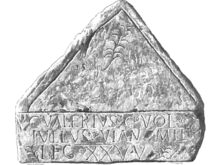 Funerary inscription for Gaius Valerius Tullus, son of Gaius of the Voltinian voting-tribe, from Vienne, a Colonia in Gallia Narbonensis, soldier of the XX Legion Valeria Victrix, found before 1840 in Carvoran (Magnis), Hadrians Wall.